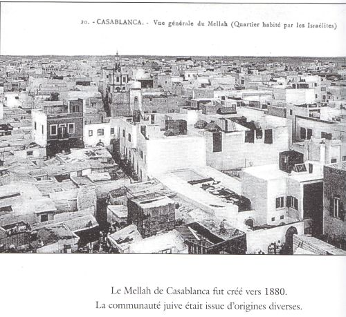 Mellah of Casablanca